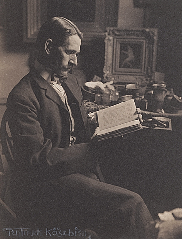 Arthur B. Davies, circa 1908, from the Ferargil Galleries records, Archives of American Art, Smithsonian Institution.